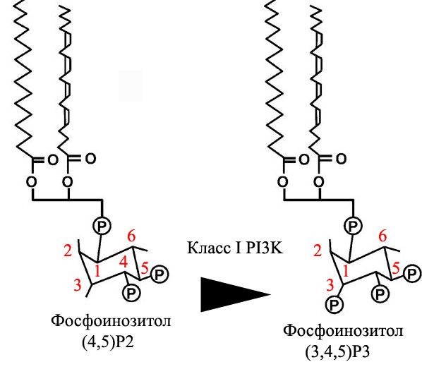 Фосфорилирование инозитола